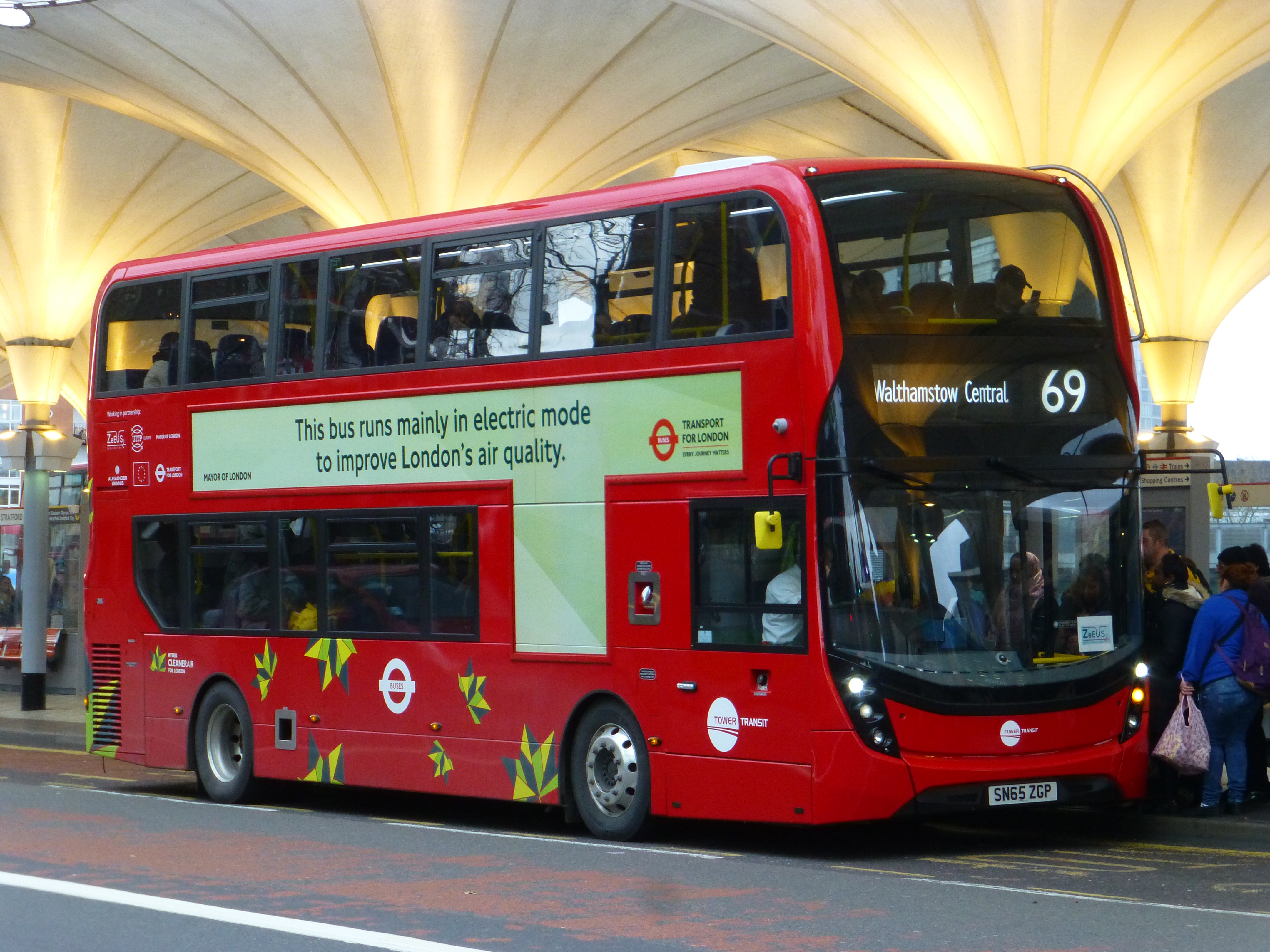 Alexander Dennis Enviro400 VE Virtual Electric Hybrid Bus on London Buses route No.69 at Stratford bus station.